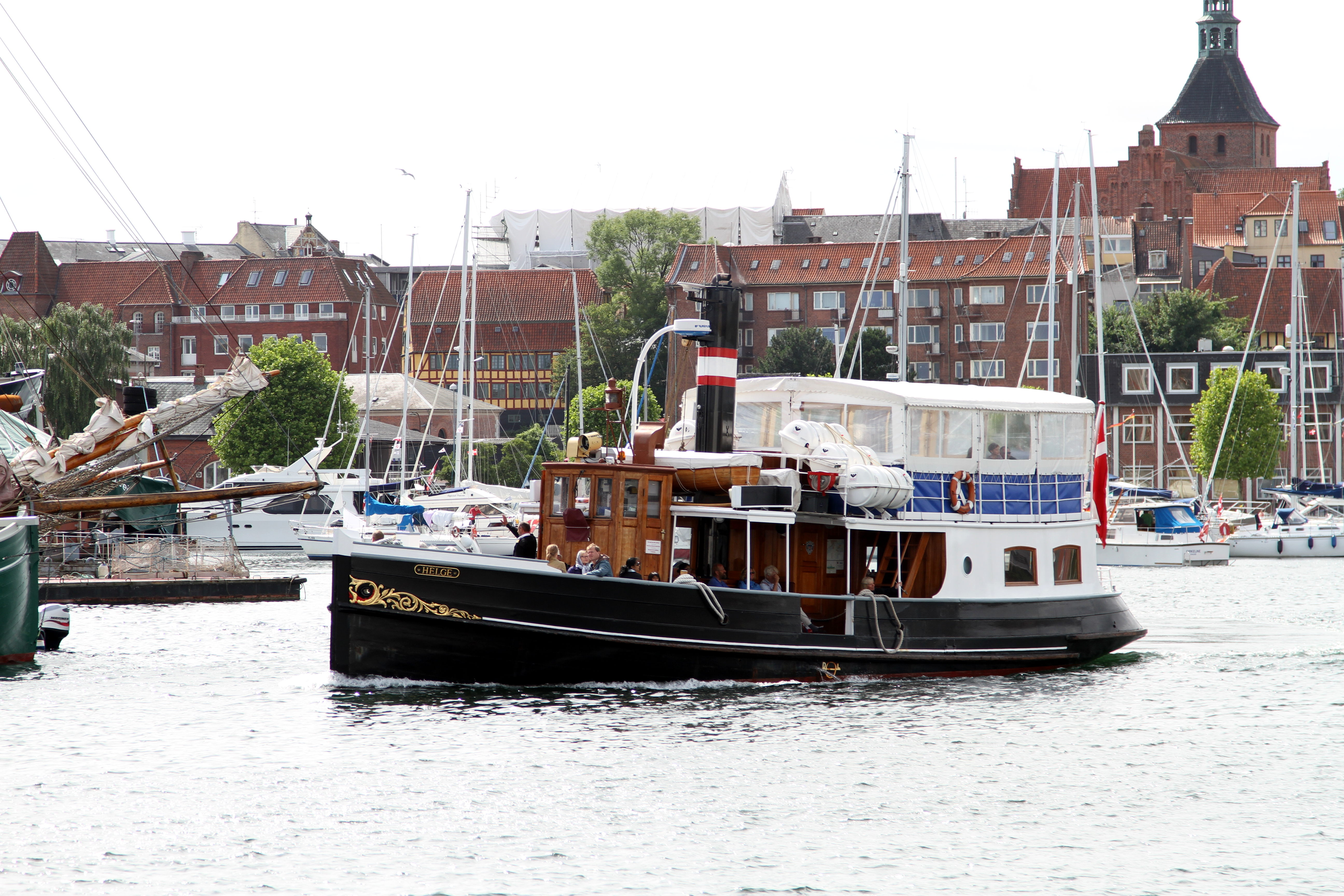 M/S Helge in Svendborg harbour.